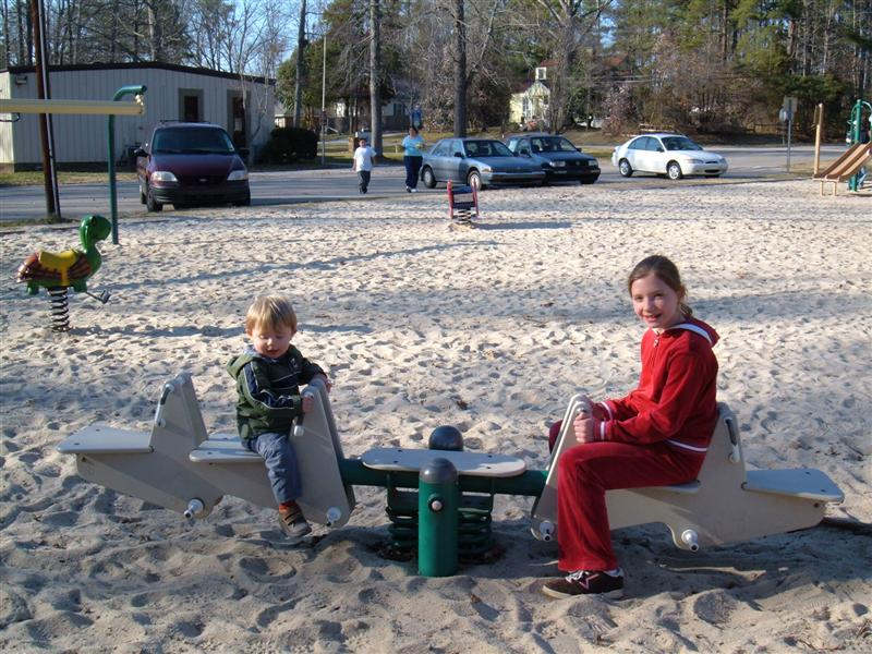 A boy and a girl playing on a seesaw.age1.5 053